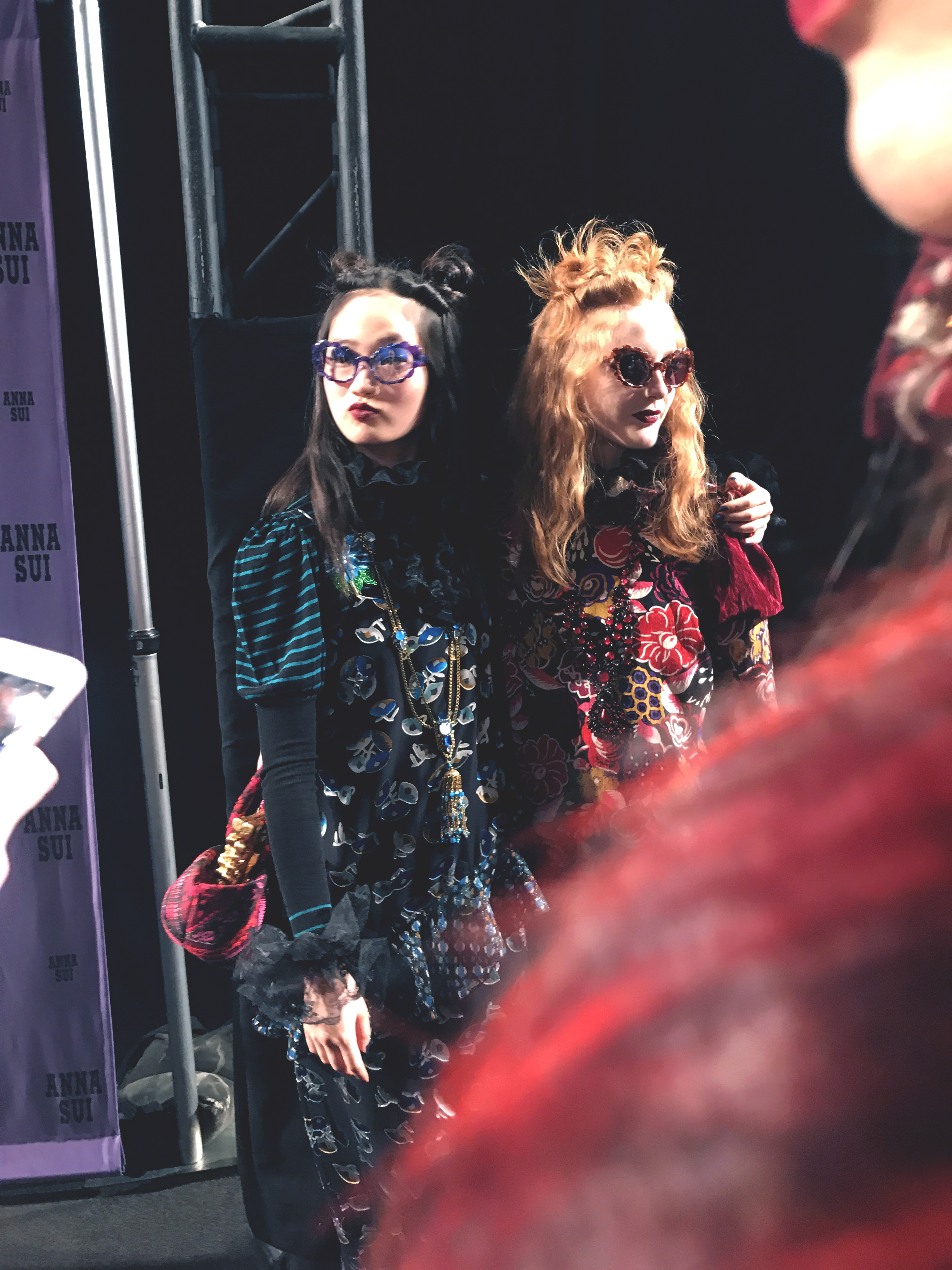 Hyun Ji Shin and Madison Stubbington backstage at the Anna Sui Fall Winter 2017 show at New York Fashion Week, Skylight Clarkston Square, February 15, 2017.